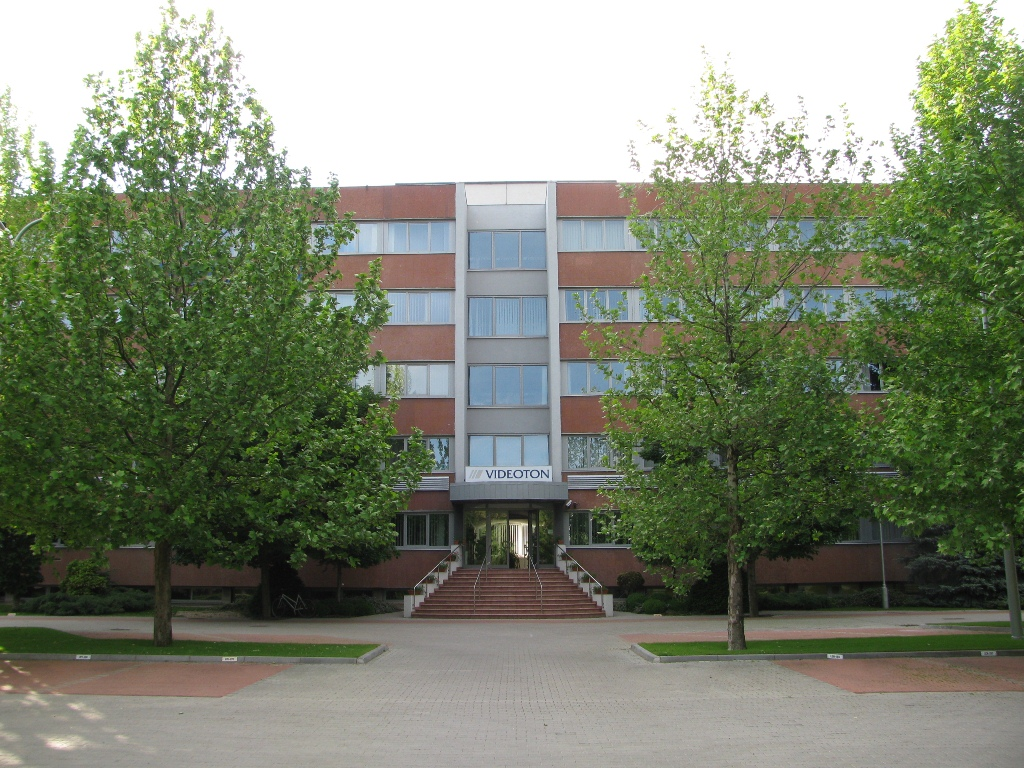 Headquarters of Videoton Group in Székesfehérvár